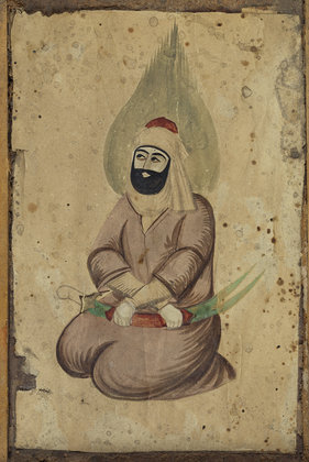 Ali - Inv. no. 2003, 197, 7